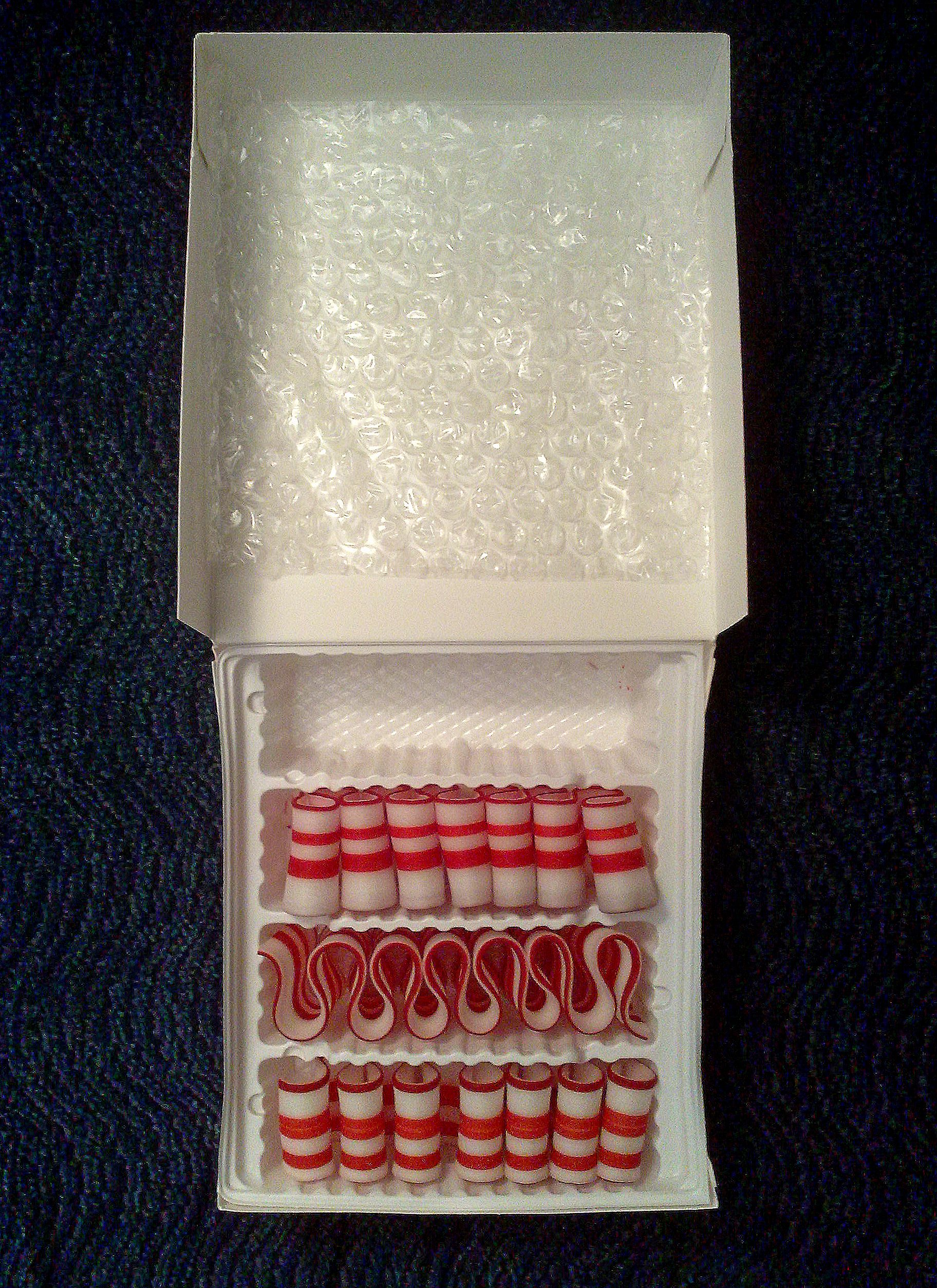 A box of Sevigny's peppermint ribbon candy. The appearance of the candy in this box was more matte than glossy; however, Sevigny's also sells multi-flavor variety boxes which contain the glossier kind, which is also stickier than these were. I turned one on its side to show more detail. Prior to this picture being taken I also ate one, which is why there is one missing.